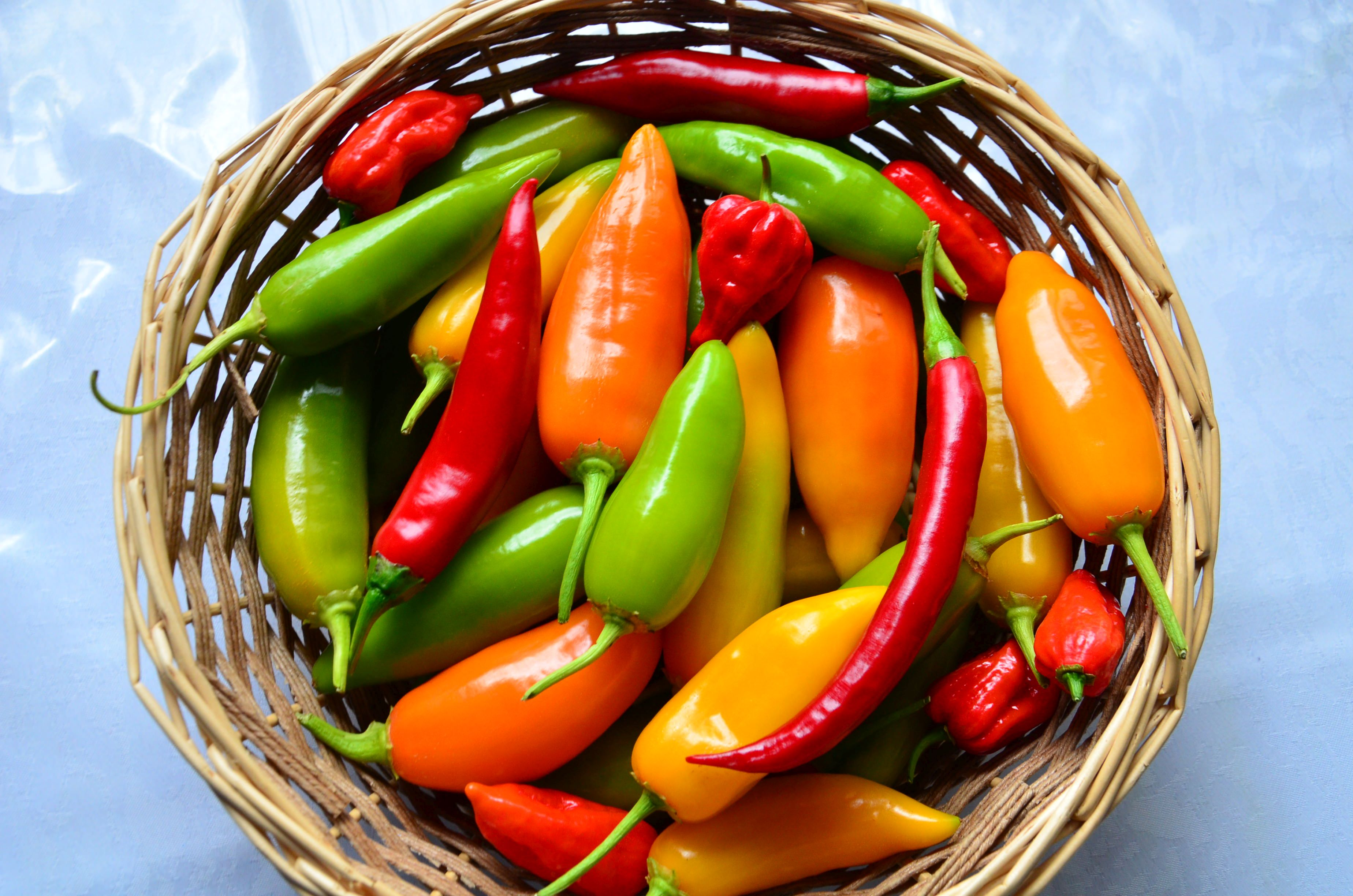 Various Chilis grown in 2012. The big round ones are Aji Amarillo (Capsicum Baccatum) in various degrees of ripeness (green to orange). The red thin long ones ones are Hybrids of Capsicum annuum, the red small denty ones are Bhut Jolokia (Capsicum chinense).